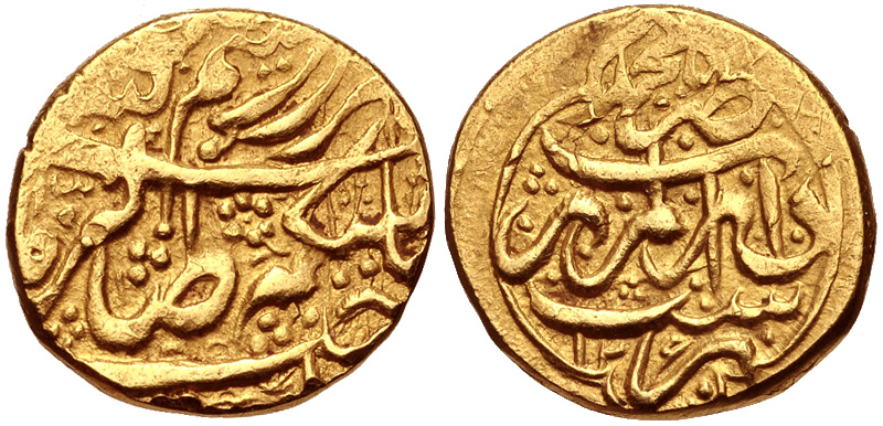 IRAN, Qajars. Agha Muhammad Khan. AH 1193-1212 / AD 1779-1797. AV Half Toman (15mm, 3.83 g, 12h). Type C. Rasht mint. Dated AH 12[0]6 (AD 1791/2). Album 2832; KM 626.2. VF, areas of weak strike at periphery.